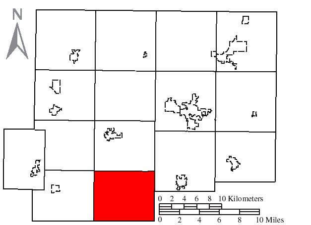 Made by the US Census and modified by myself